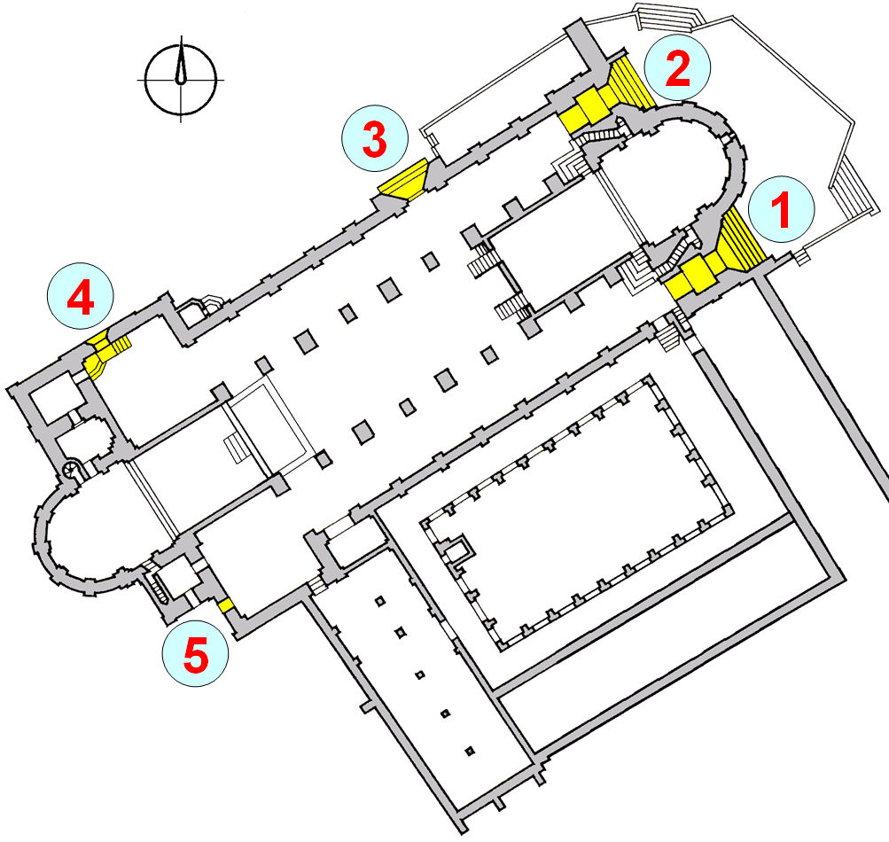 cathedral of Bamberg, Germany